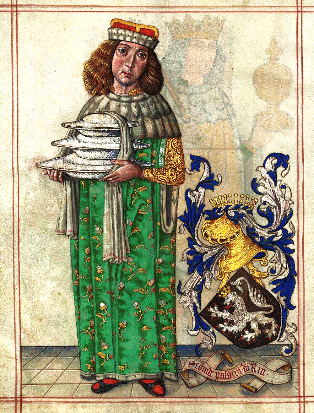 Count of Palatine of the Rhine